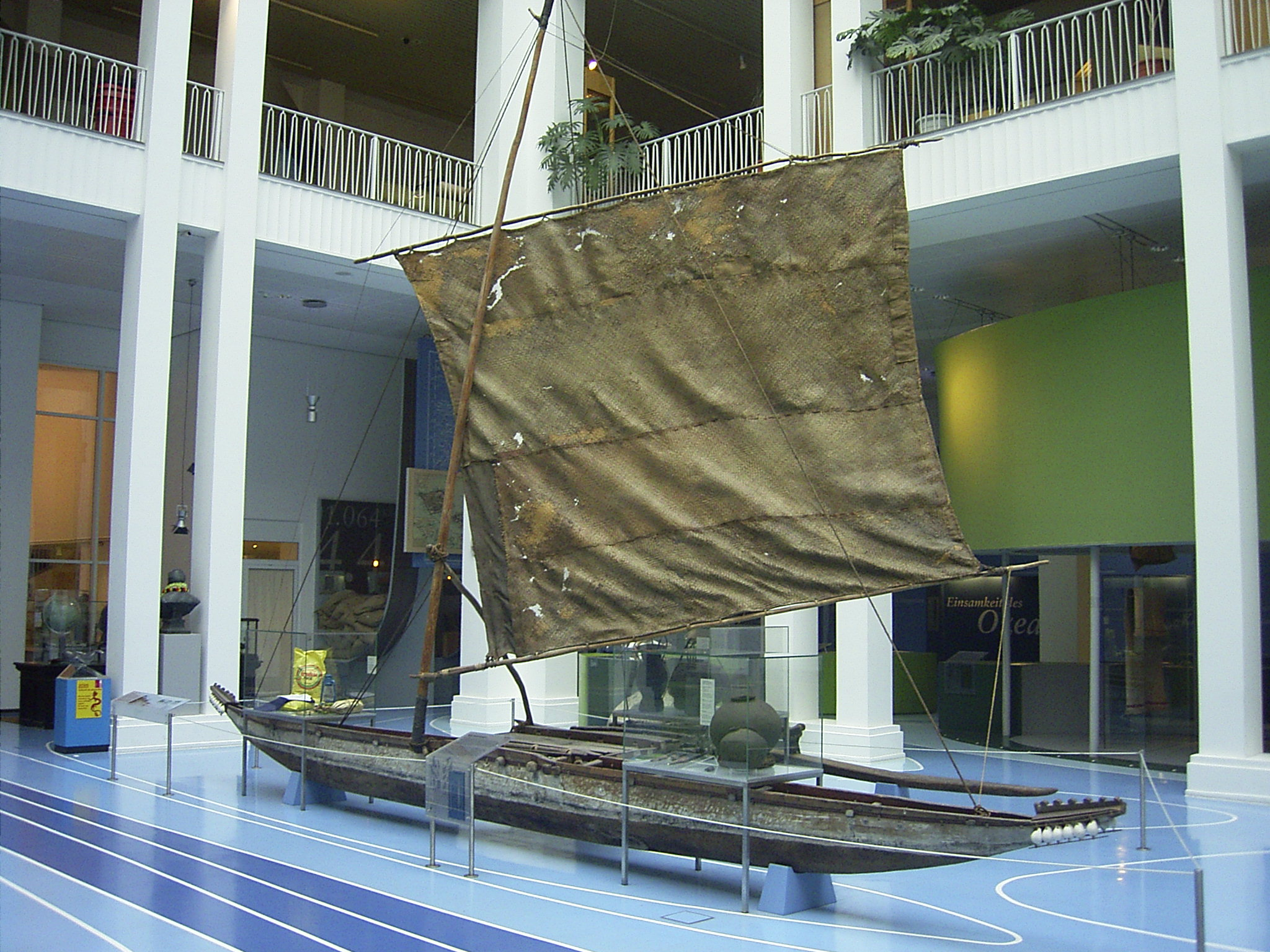 Dugout with side plank extensions and outrigger. Built by the Motu of the Admiralty Islands} (Papua New Guinea) at the the end of the nineteenth century. The sail is woven from strips of Pandanus leaves. Exhibited in the Übersee-museum Bremen.